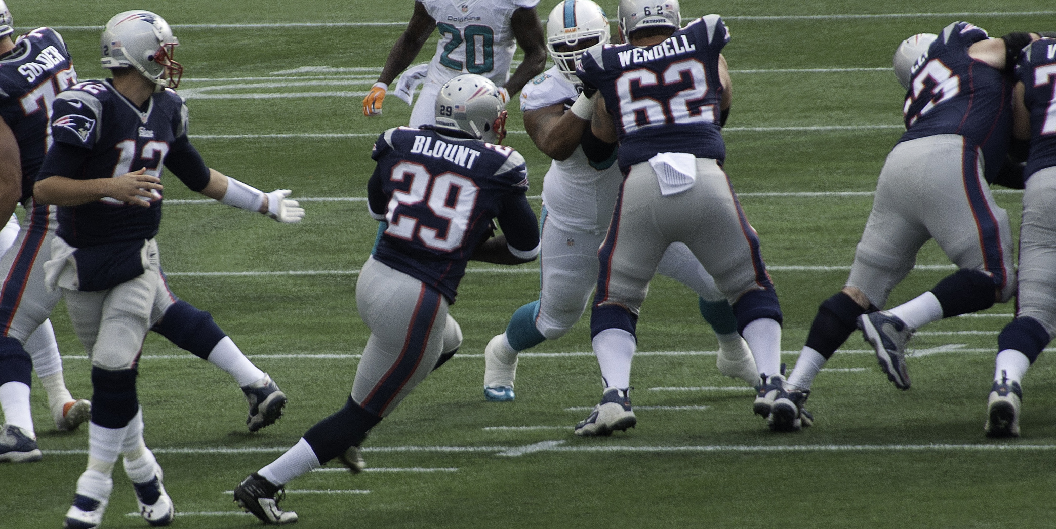 Patriots running back LeGarrette Blount receives handoff from Tom Brady against the Miami Dolphins.